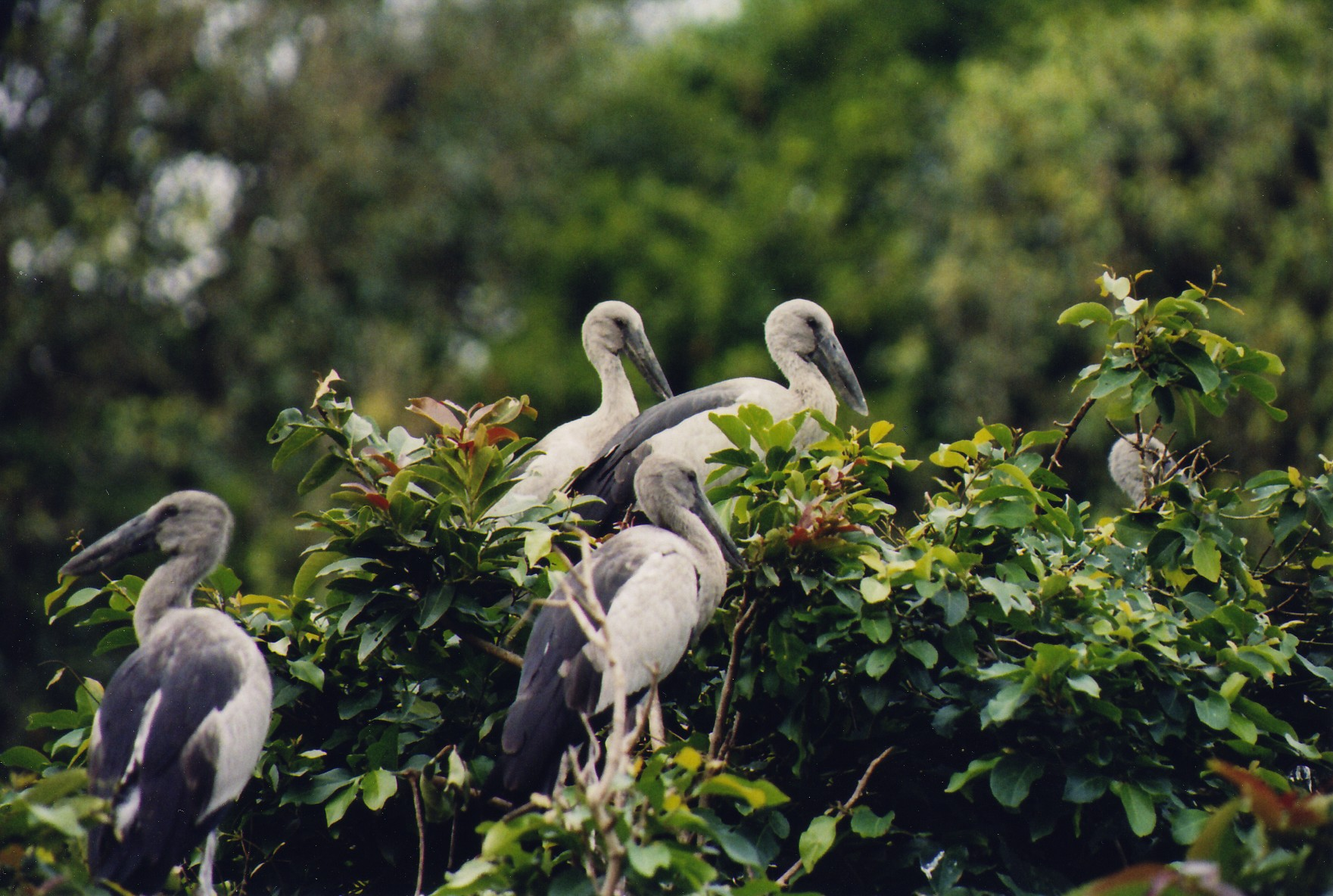 Located in the bird sanctuary